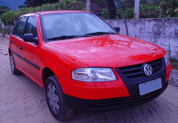 Volkswagen Gol Mk4 Copa Special Edition at Pauba Beach, São Sebastião, Brazil.